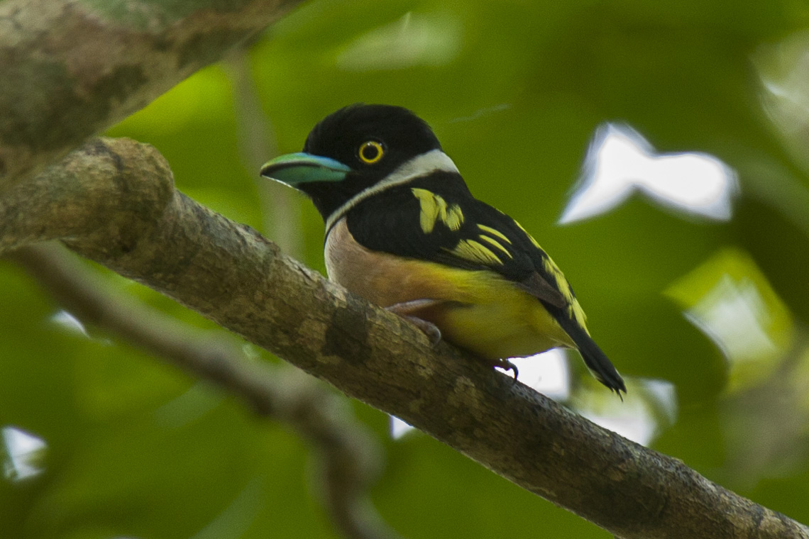 Black-and-Yellow Broadbill - Thailand_H8O6740